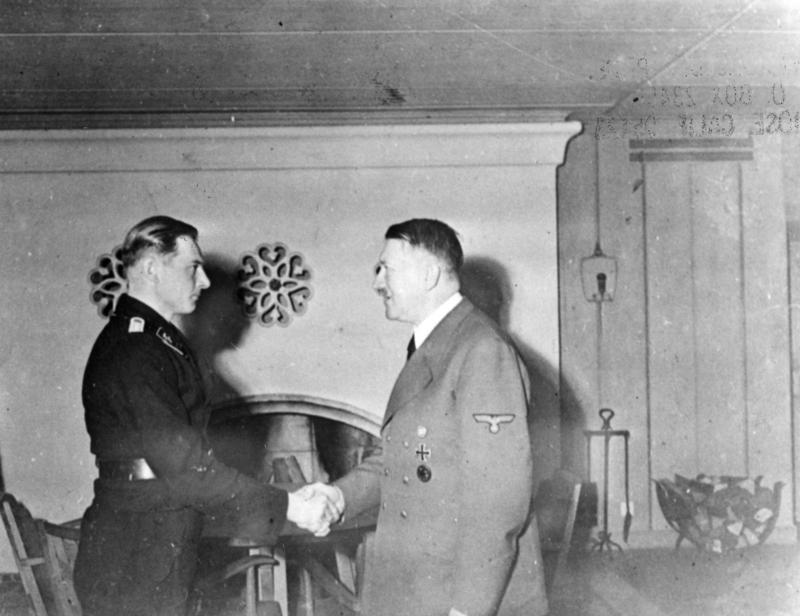 Hitler's headquarter Wolfsschanze near Rastenburg (Ketrzyn) in East Prussia on the 30-th of january 1944. Adolf Hitler rewards Michael Wittmann with Oak Leaves to Knight's Cross.